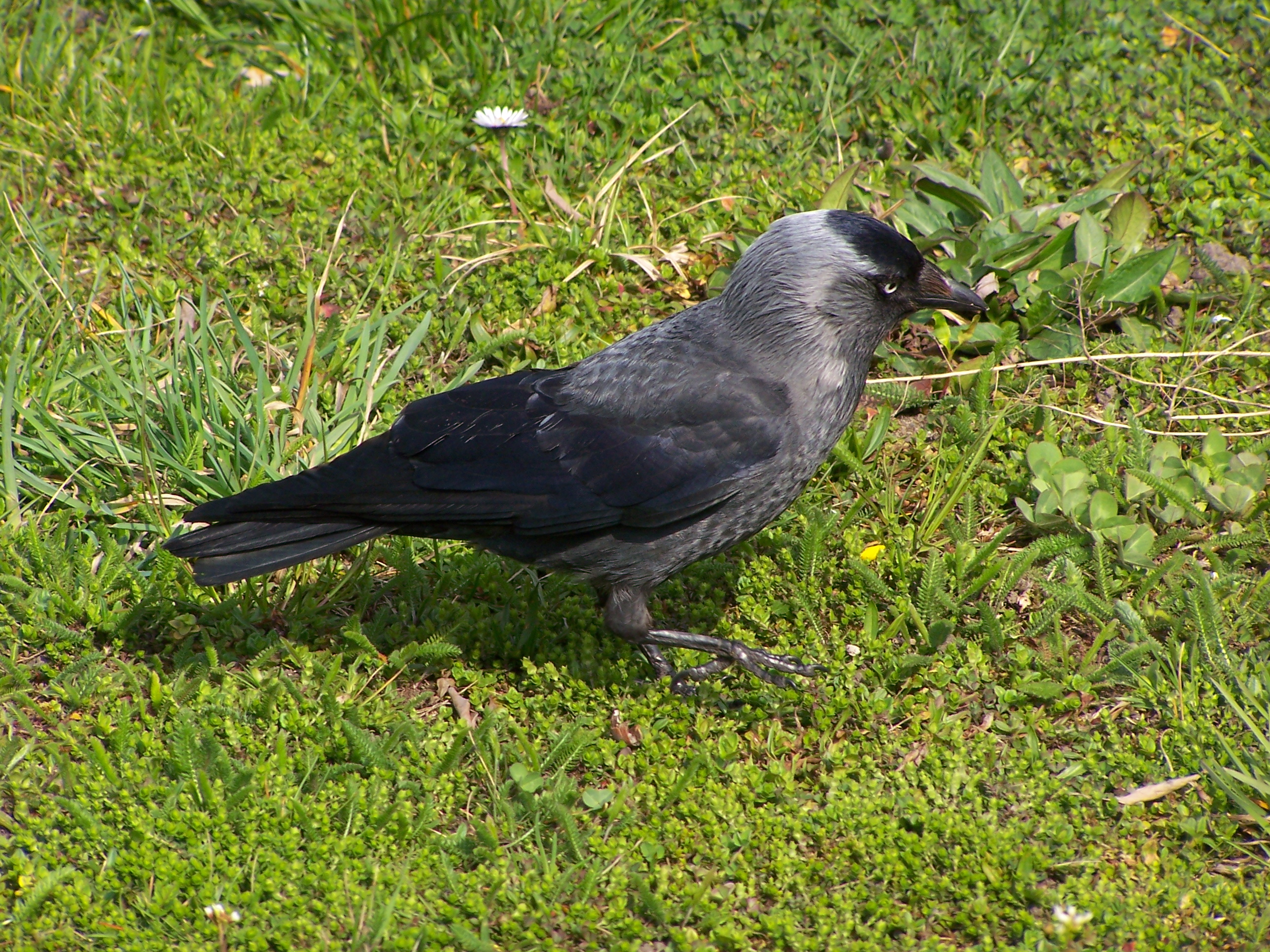 Jackdaw.